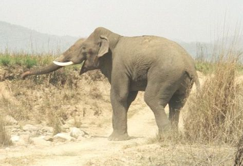 Asian Elephant photographed in Jim Corbett National Park . March 2004. Author: Bodenseemann